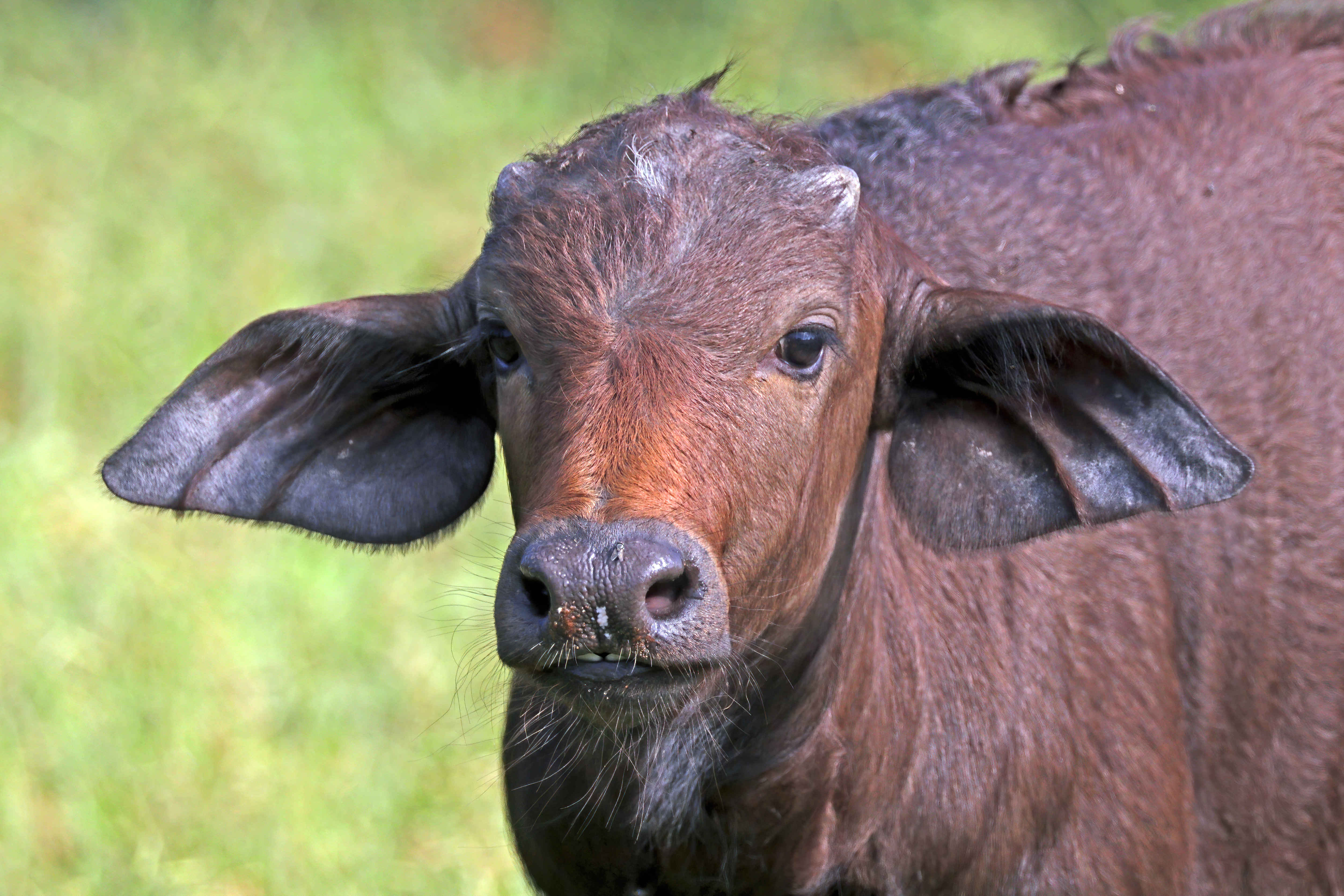 African buffalo (Syncerus caffer caffer) juvenile, Chobe National Park, Botswana